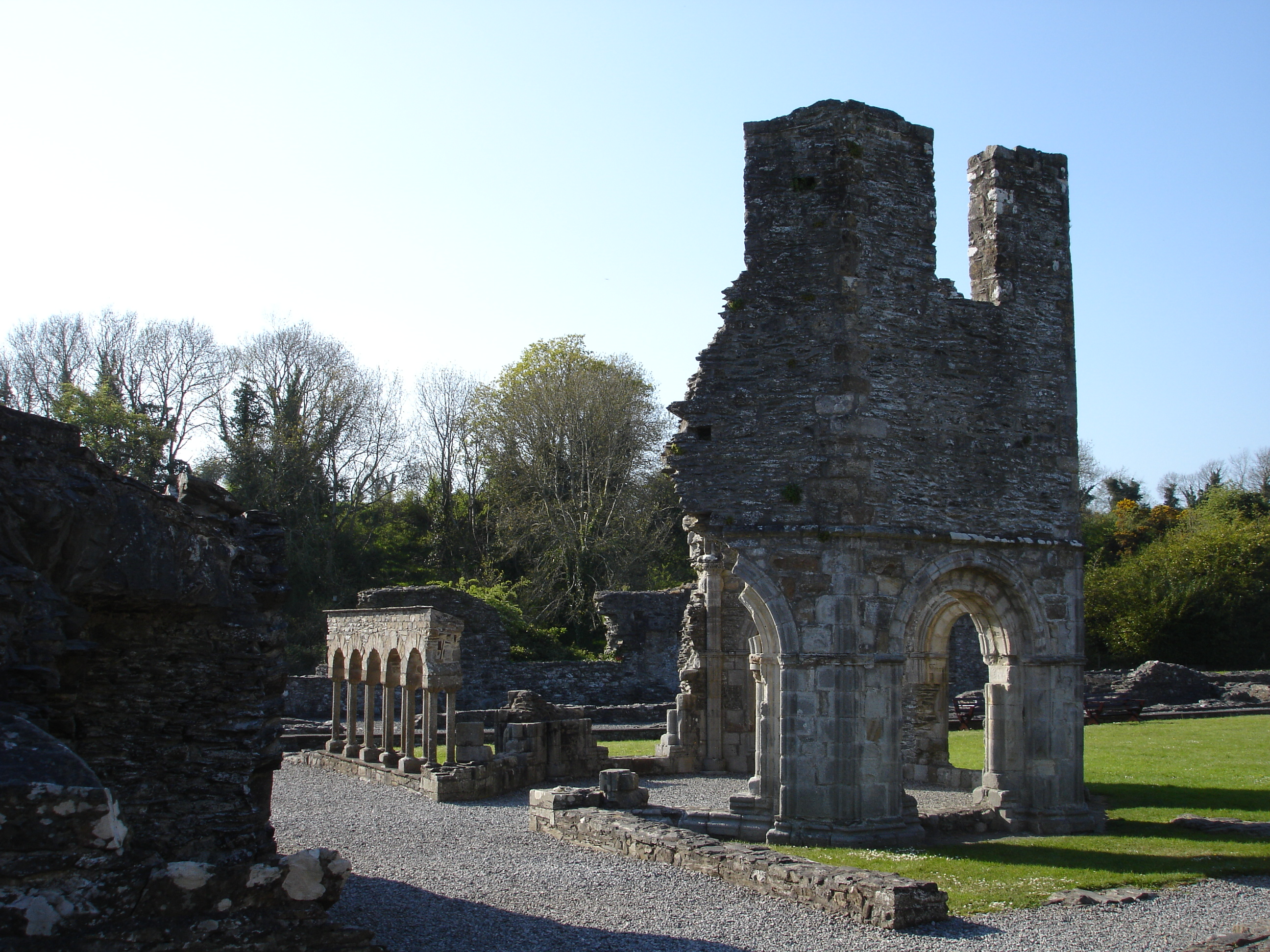 Mellifont Abbey 13th century lavabo